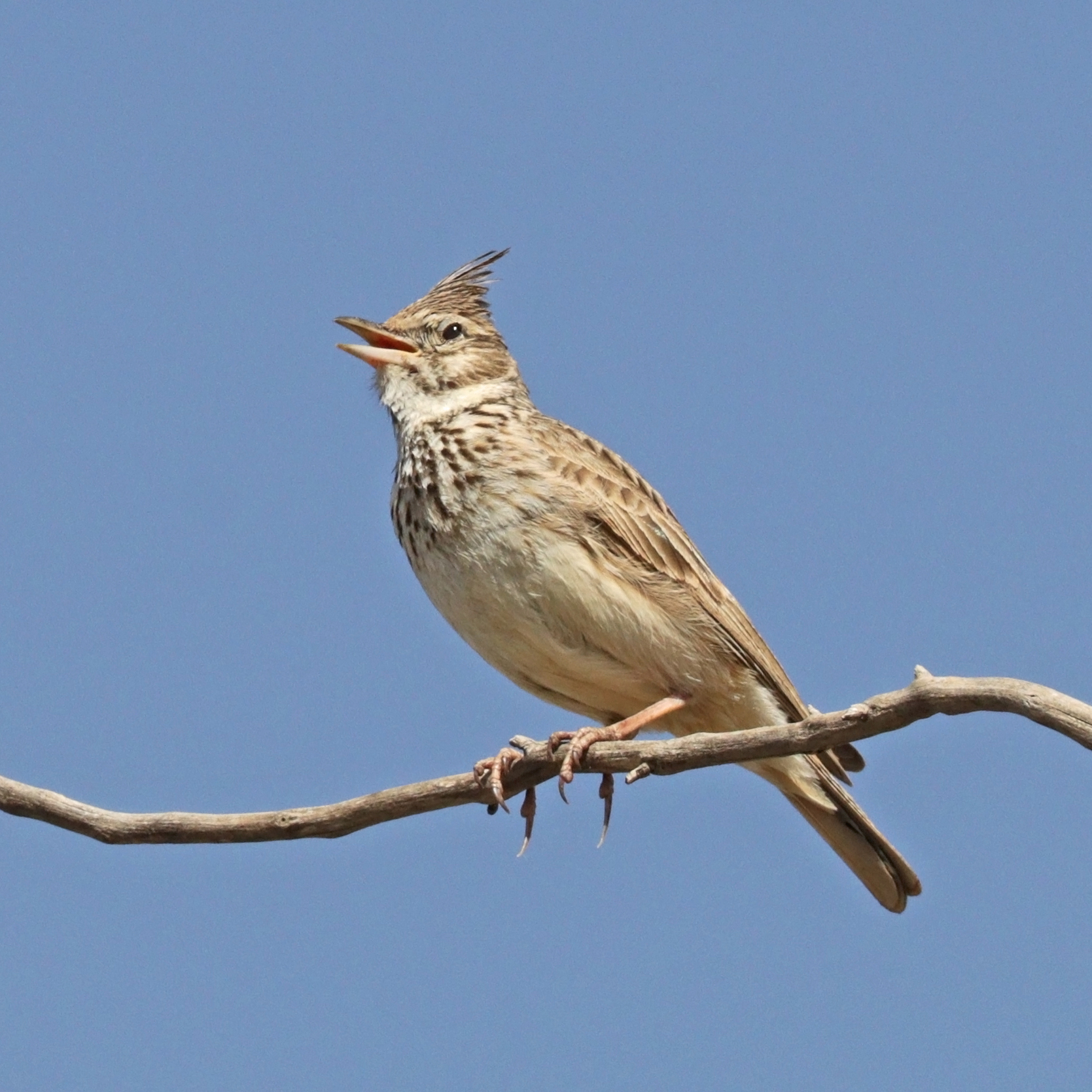 Crested lark (Galerida cristata kleinschmidti), Near Asni, Morocco